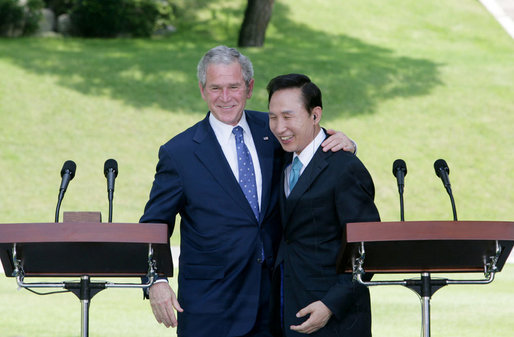 President George W. Bush embraces South Korean Preesident Lee Myung-bak at the conclusion of their joint news conference Wednesday, Aug. 6, 2008, at the Blue House presidential residence in Seoul, South Korea. White House photo by Chris Greenberg